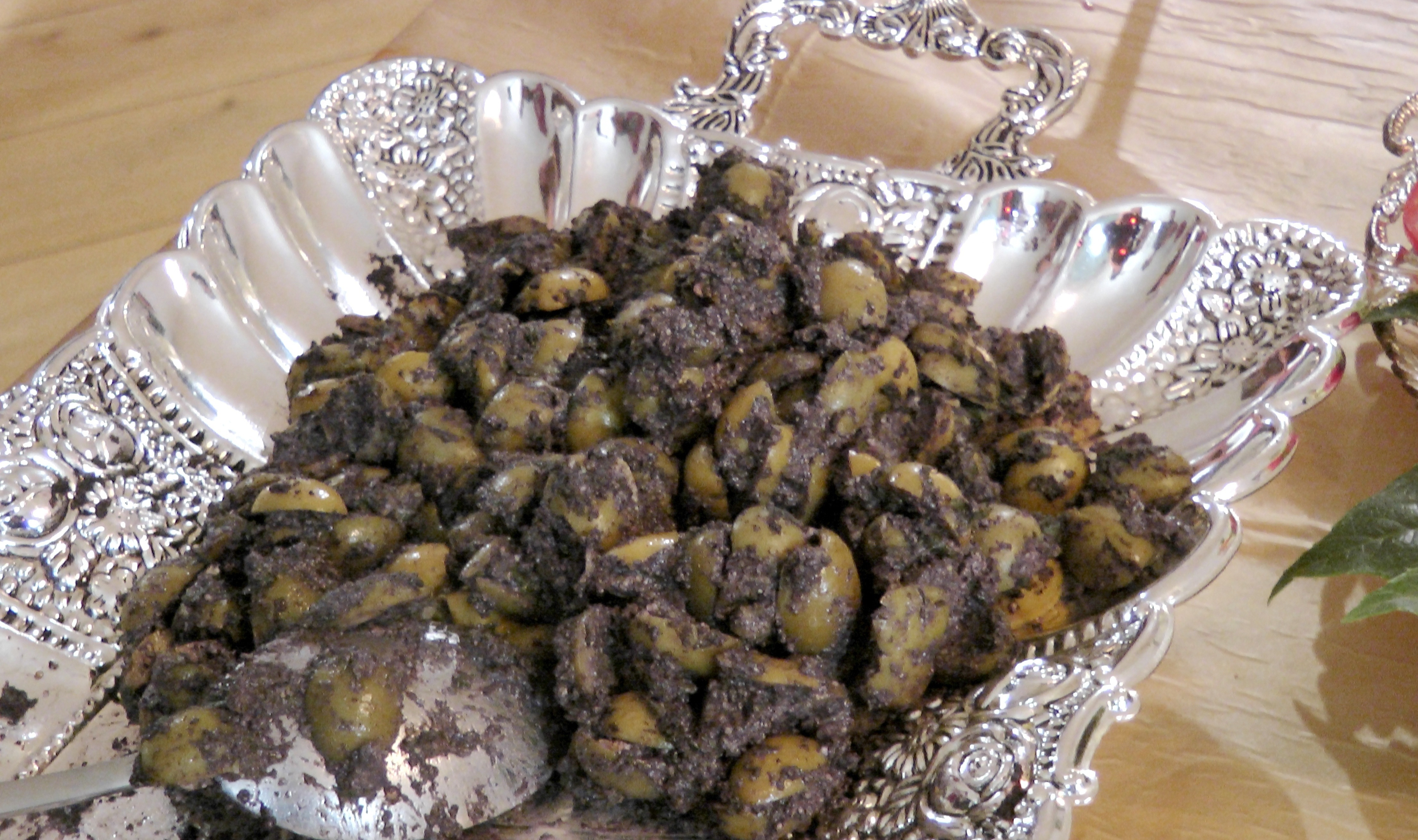 ZEYTOON-PARVARDEH (Persian Olive, Pomegranate and Walnut), Cooked by Raheleh Nikoo, Photo by Pejman Akbarzadeh / Persian Dutch Netwotk.